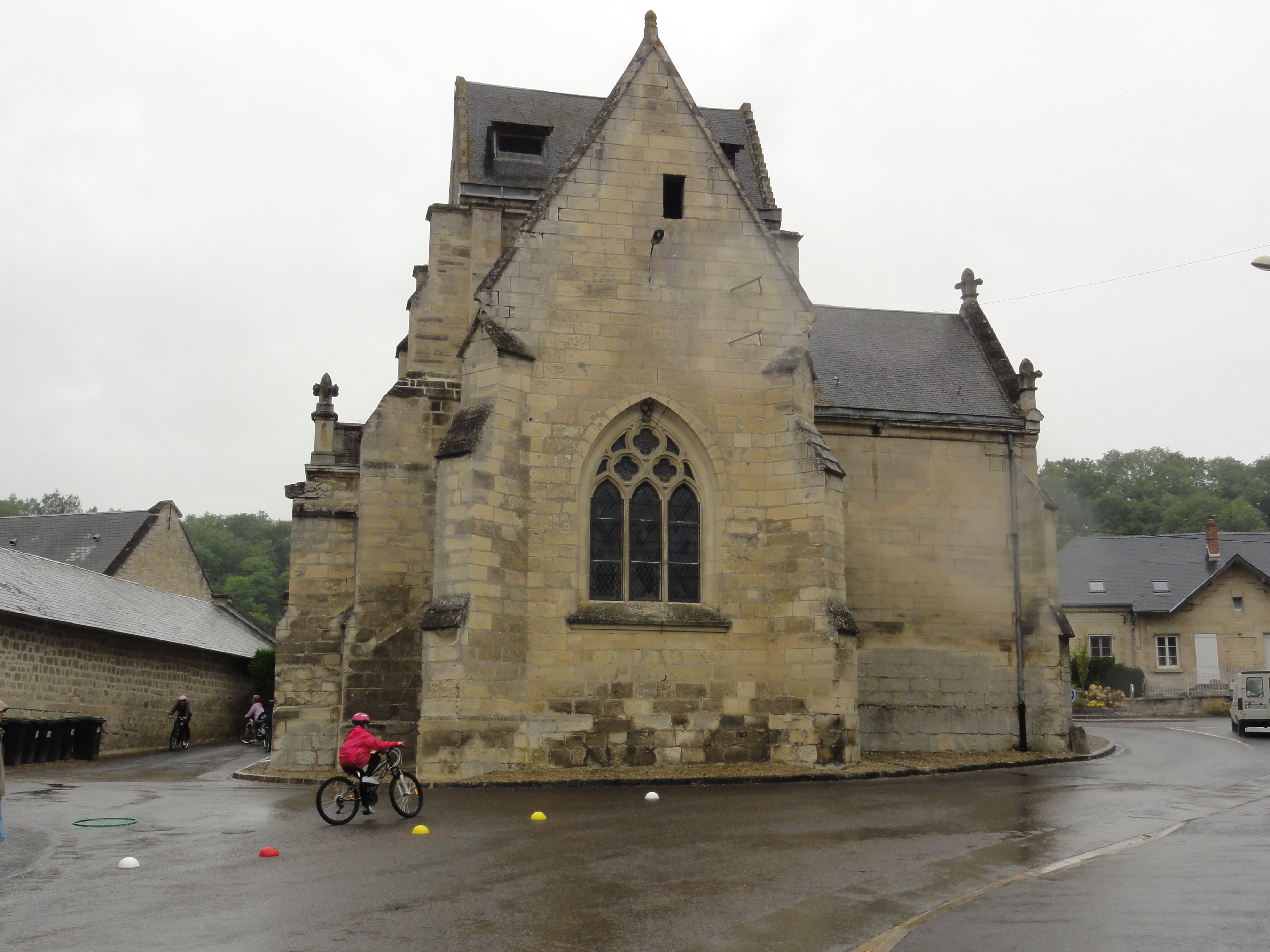 Épagny (Aisne) église